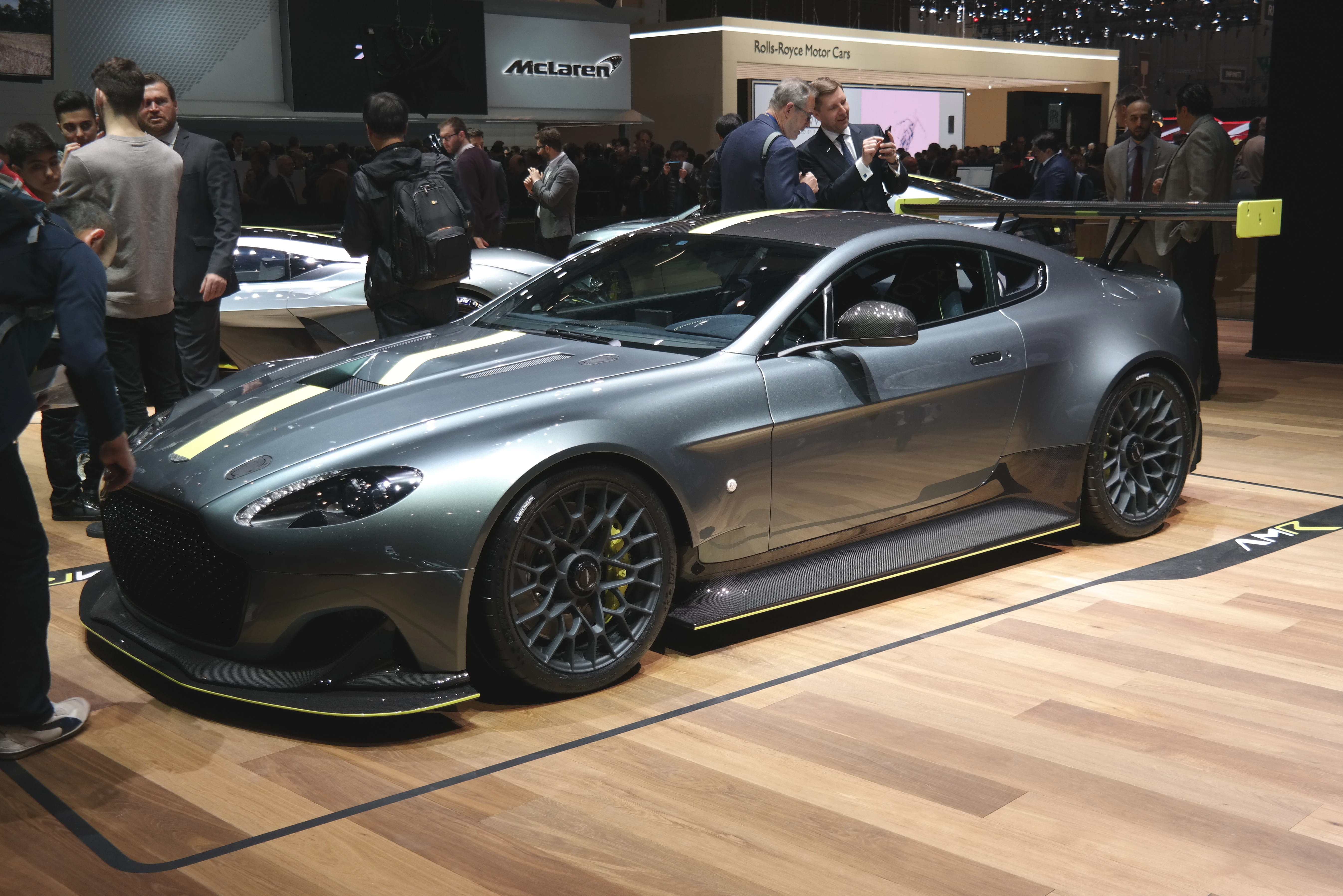 Geneva Motor Show 2017 (photo taken on the first press day)